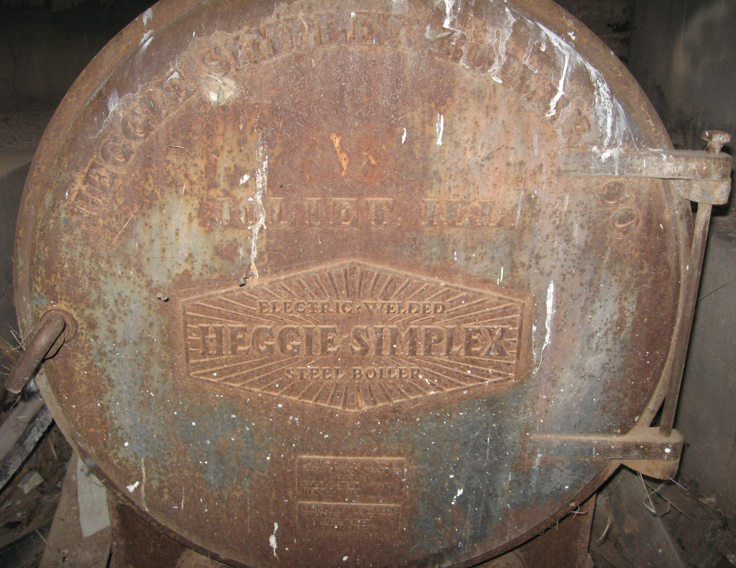 Abandoned school in Wheatland, New Mexico. Heggie Simplex brand boiler beneath stage in gymnasium. The boiler was manufactured in Joliet, Illinois.